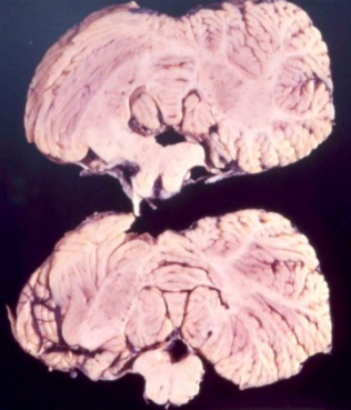 Cerebellum of kuru victim